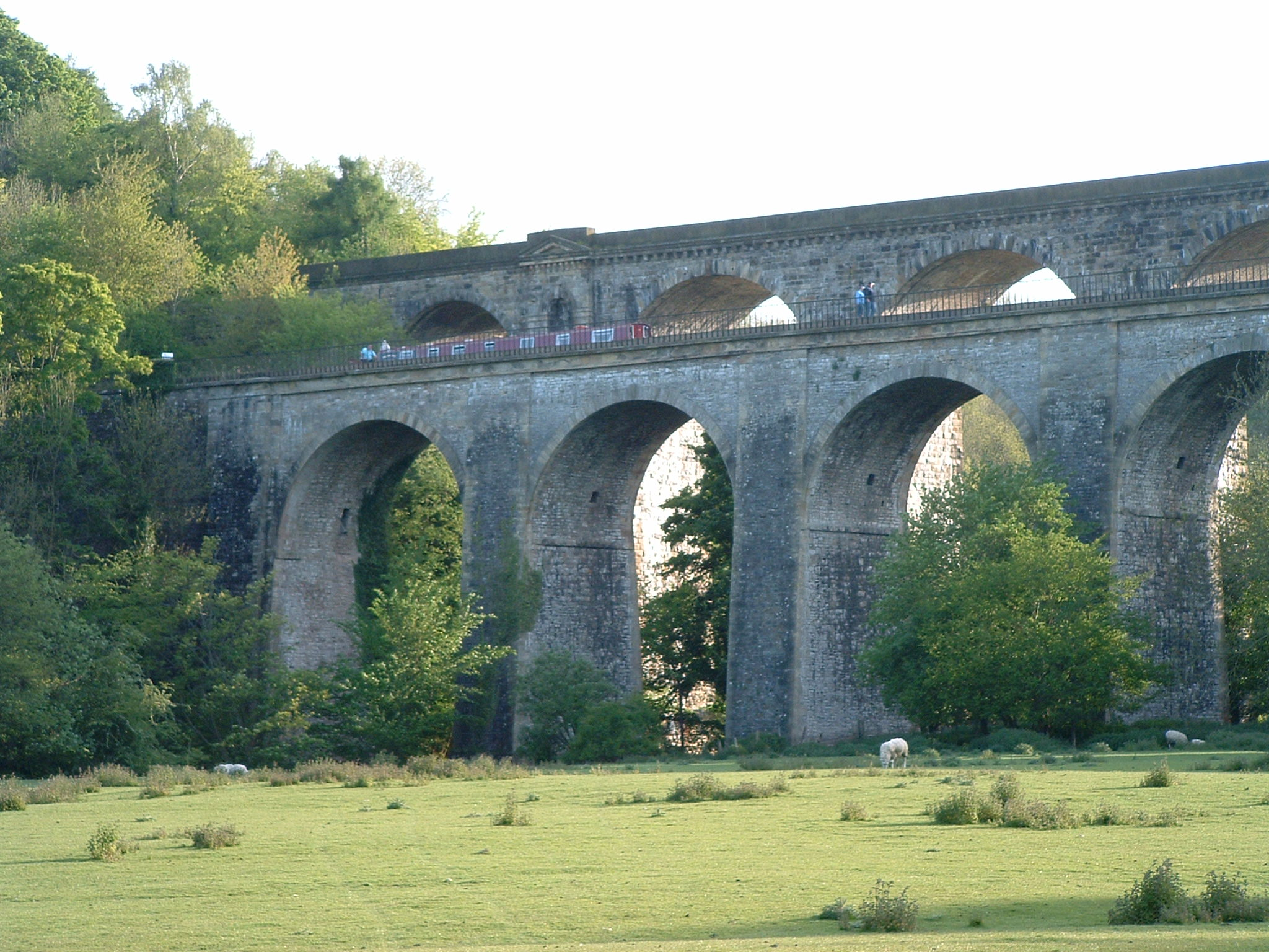 Chirk Aqueduct, view from below Picture by Akke Monasso